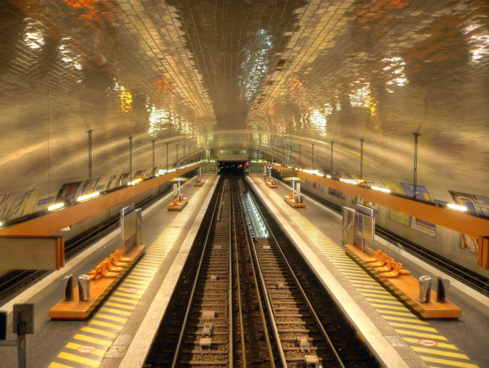 Porte de Charenton metro station. Line 8. Paris.